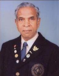 Snap of Mr. Nimal